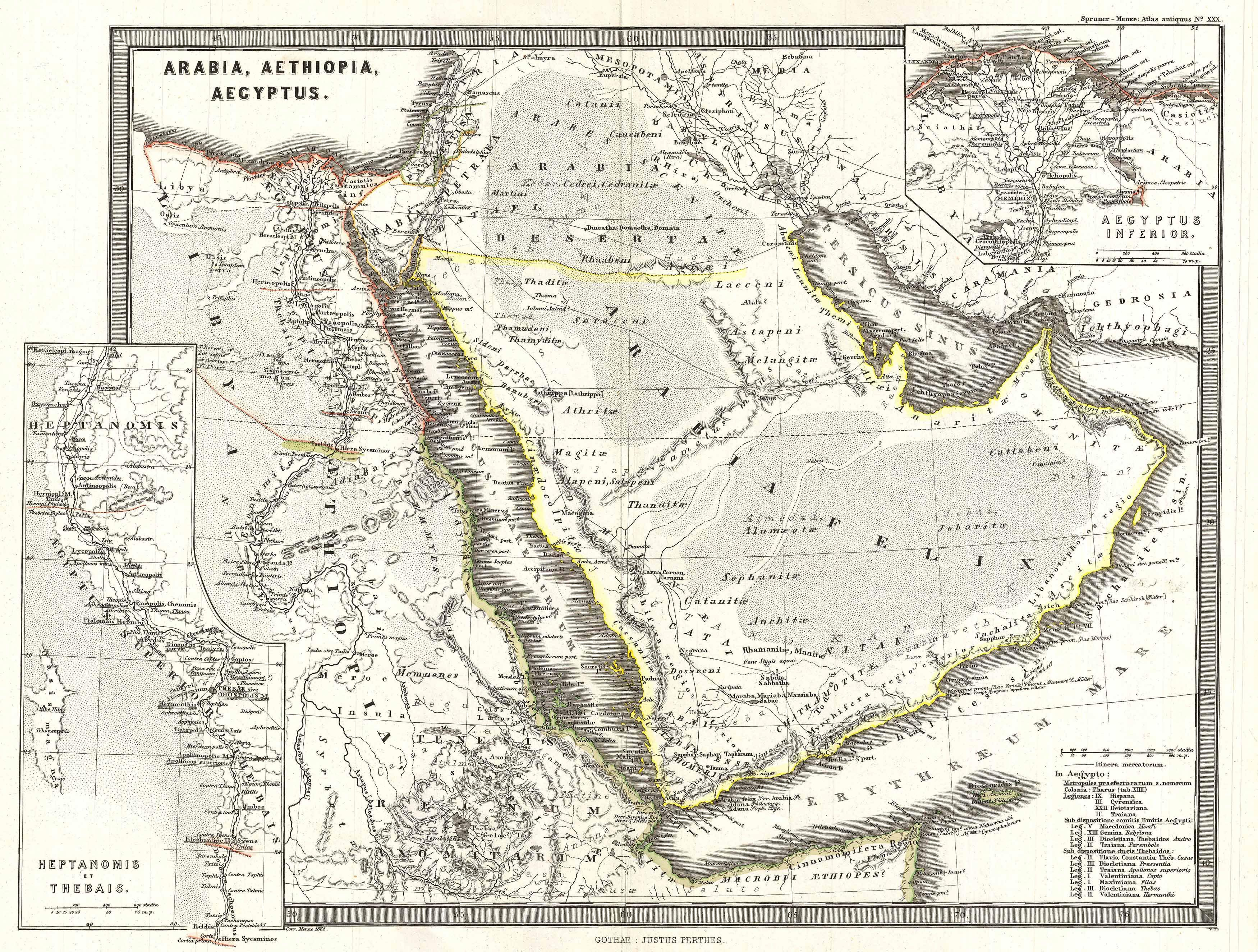 A particularly interesting historic map, this is Karl von Spruner’s 1865 rendering of Arabia, Aethiopia (Ethiopia) and Egypt (Aegyptus) in antiquity. Centered on the Red Sea or Mare Rubrum , this map covers the entirety of the Arabian Peninsula, the Persian Gulf, and the Nile Valley as far south as Lake Tana (Pseuba), the source of the Blue Nile. Like most of Spruner’s work this map overlays ancient political geographies on relatively contemporary physical geographies, thus identifying the sites of forgotten towns and villages, the movements of armies, and the disposition of lands in the region. This particular example includes both ancient Latin and more contemporary Arabic names (transliterated of course) for many important regions and sites. Additionally, two inset maps are offered. In the lower left hand quadrant a map labeled “Heptanomis et Thebais” focuses on the course of the Nile from Heptatnomis (near Fayum) south to just past modern day Aswan, covering in the process many of the ancient Egyptian cities now submerged under the waters of Lake Nasser. Another inset, in the upper right quadrant, focuses on the fertile Nile Delta, forming an inverted triangle between Alexandria, Memphis, and Casluch. As a whole the map labels important cities, rivers, mountain ranges and other minor topographical detail. Territories and countries outlined in color. The whole is rendered in finely engraved detail exhibiting the fine craftsmanship for which the Perthes firm is known.